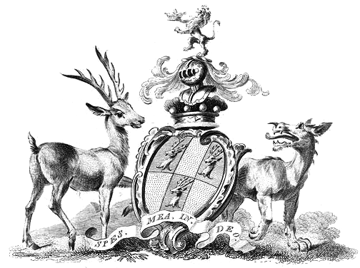 Arms of Roper, Coat of Arms of Trevor Charles Roper, 18th Baron Dacre (1745–1794). Per fesse azure & or a pale counterchanged & 3 buck's heads erased of the 2nd Crest: a lion rampant sable holding in the dexter paw a coronet or. (Fox-Davies, Armorial families; As seen on several hatchments in Church of St Peter & St Paul, Lynsted, Kent)